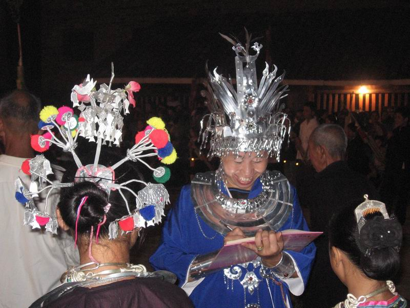 Dong minority woman in traditional clothes during Automn festival. Chengyangqiao villages, Sanjiang county, China. Photo taken by Ariel Steiner.